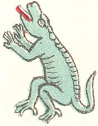 The Aztec day sign cuetzpalin (lizard).